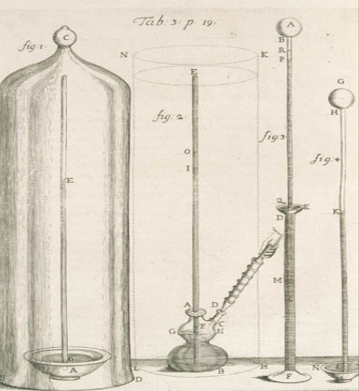 Picture from the only published work from the Accademia del Cimento